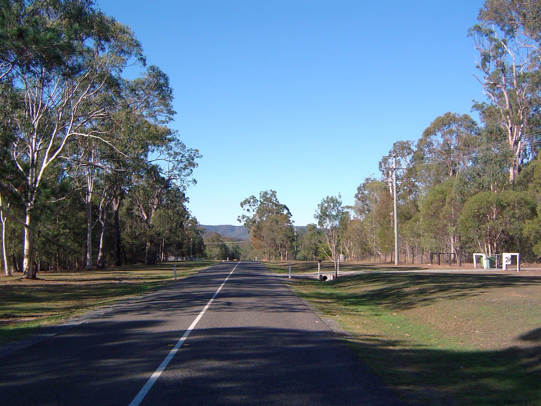 Photo of Hotz Road at Buccan in Logan City, Queensland, Australia.